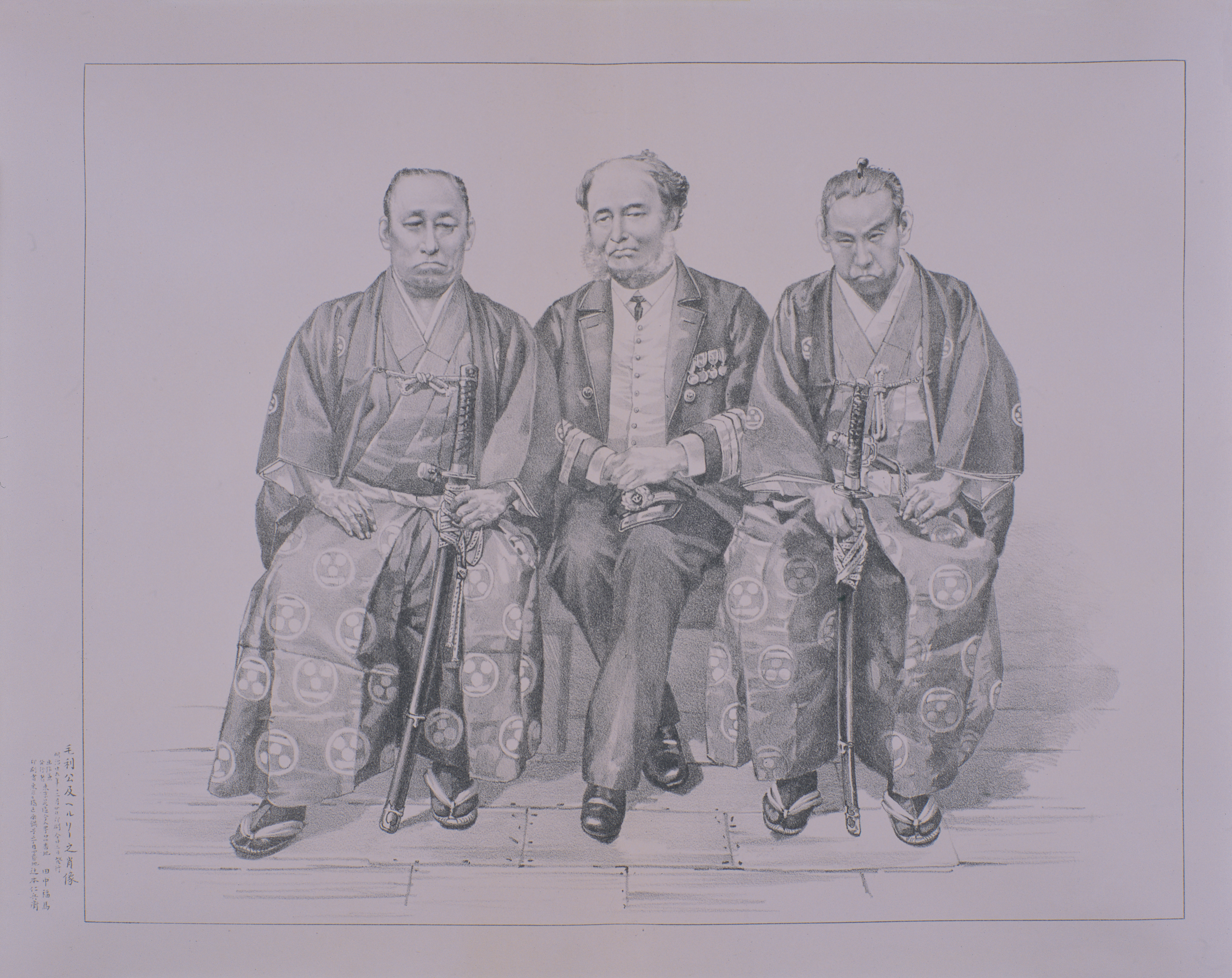 Vice-Admiral George King flanked by Mōri Takachika and his son Mōri Motonori; they met twice early in 1867 [1]; Yamaguchi Prefectural Archives, Yamaguchi, Yamaguchi, Japan